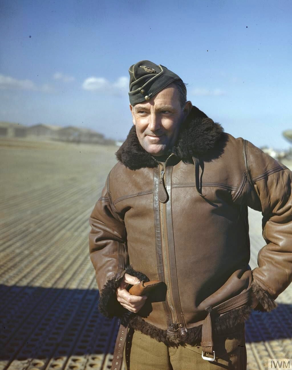 Air Marshal Sir Arthur Coningham, Italy, January 1944 The Commander of the Allied Forces in Tunisia, Air Chief Marshal Sir Arthur Coningham, KCB, DSO, MC, DFC, AFC, standing on a perforated steel runway in the Italian theatre shortly before returning to Britain to take up his duties as Air Officer Commanding No 2 Tactical Air Force.